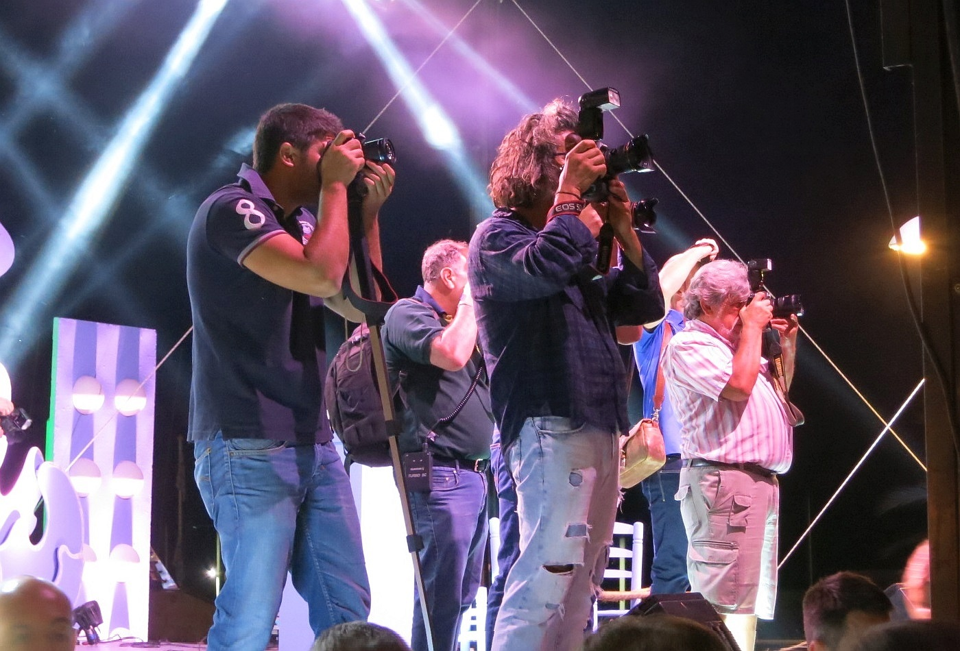 Photographers record public event in Spain